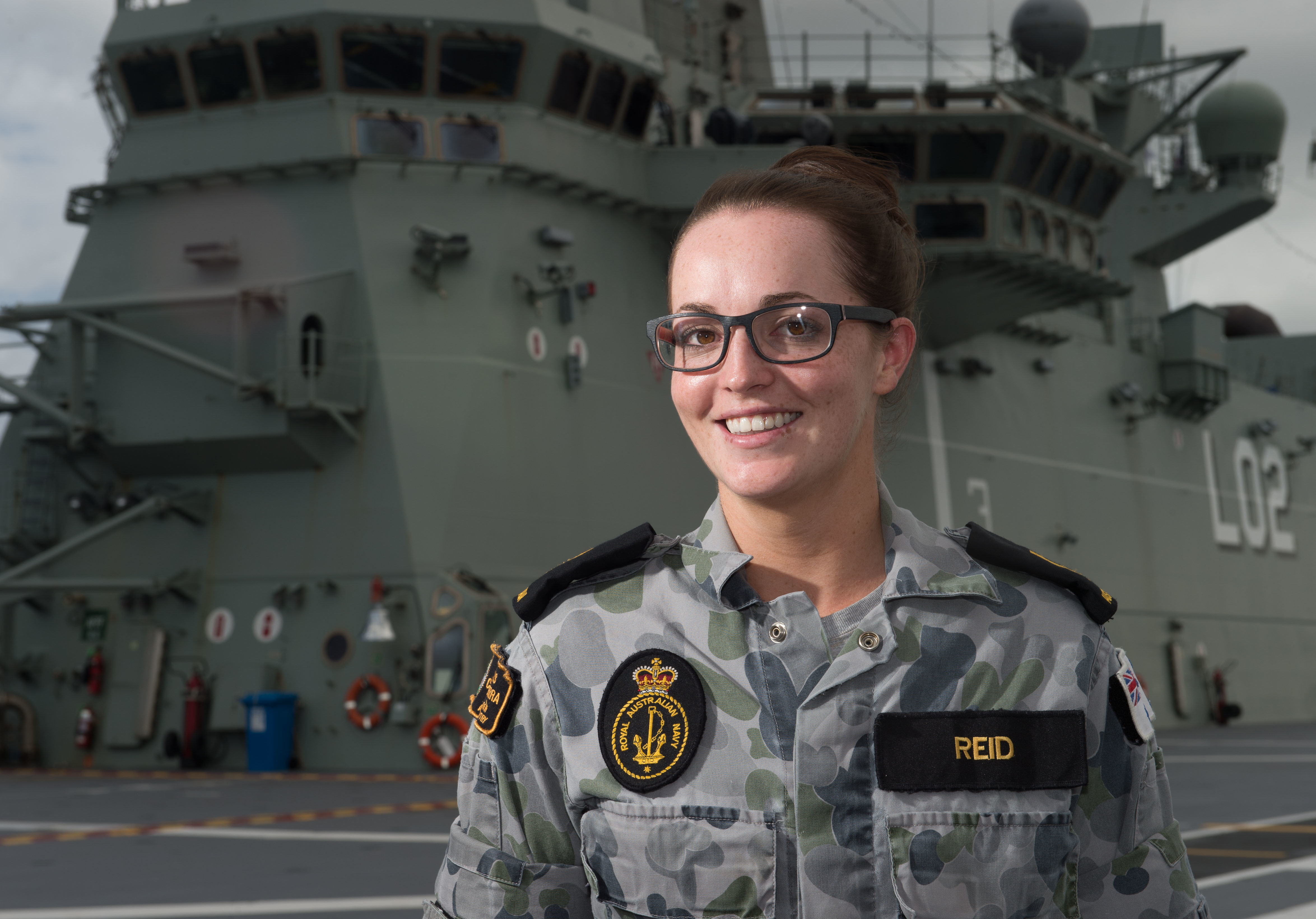 JOINT BASE PEARL HARBOR-HICKAN (JULY 5, 2016) Royal Australian Navy Able Seaman Maritime Logistics-Support Operations Codie-Lee Reid, from Brisbane, Queensland, Australia followed a family tradition of naval service. Both her parents served in the Royal Australian Navy for 20 years as enlisted sailors. Reid has served one and a half years and currently serves aboard the flagship of the Australian fleet, Royal Australian Navy Canberra Class amphibious ship HMAS Canberra (L02), and finds herself in Hawaii for Exercise Rim of the Pacific. "My experience in the navy has broadened my world perspective and shaped my worldview," Reid said of her experience during her role in humanitarian aid operations in Fiji. This is Reid's first time porting in Hawaii and her first RIMPAC. Twenty-six nations, more than 40 ships and submarines, more than 200 aircraft and 25,000 personnel are participating in RIMPAC from June 30 to Aug. 4, in and around the Hawaiian Islands and Southern California. The world's largest international maritime exercise, RIMPAC provides a unique training opportunity that helps participants foster and sustain the cooperative relationships that are critical to ensuring the safety of sea lanes and security on the world's oceans. RIMPAC 2016 is the 25th exercise in the series that began in 1971. (U.S. Navy photo by Mass Communication Specialist 2nd Class Antonio Turretto Ramos/Released)